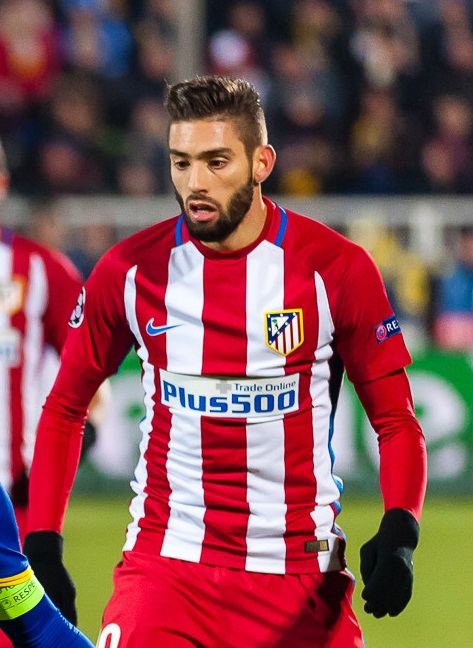 Carrasco in action during Rostov - Atletico Madrid in 2016.